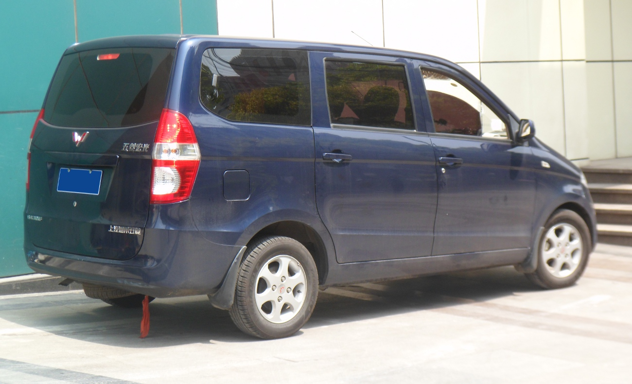 Wuling Hongguang photographed in Shanghai, China.